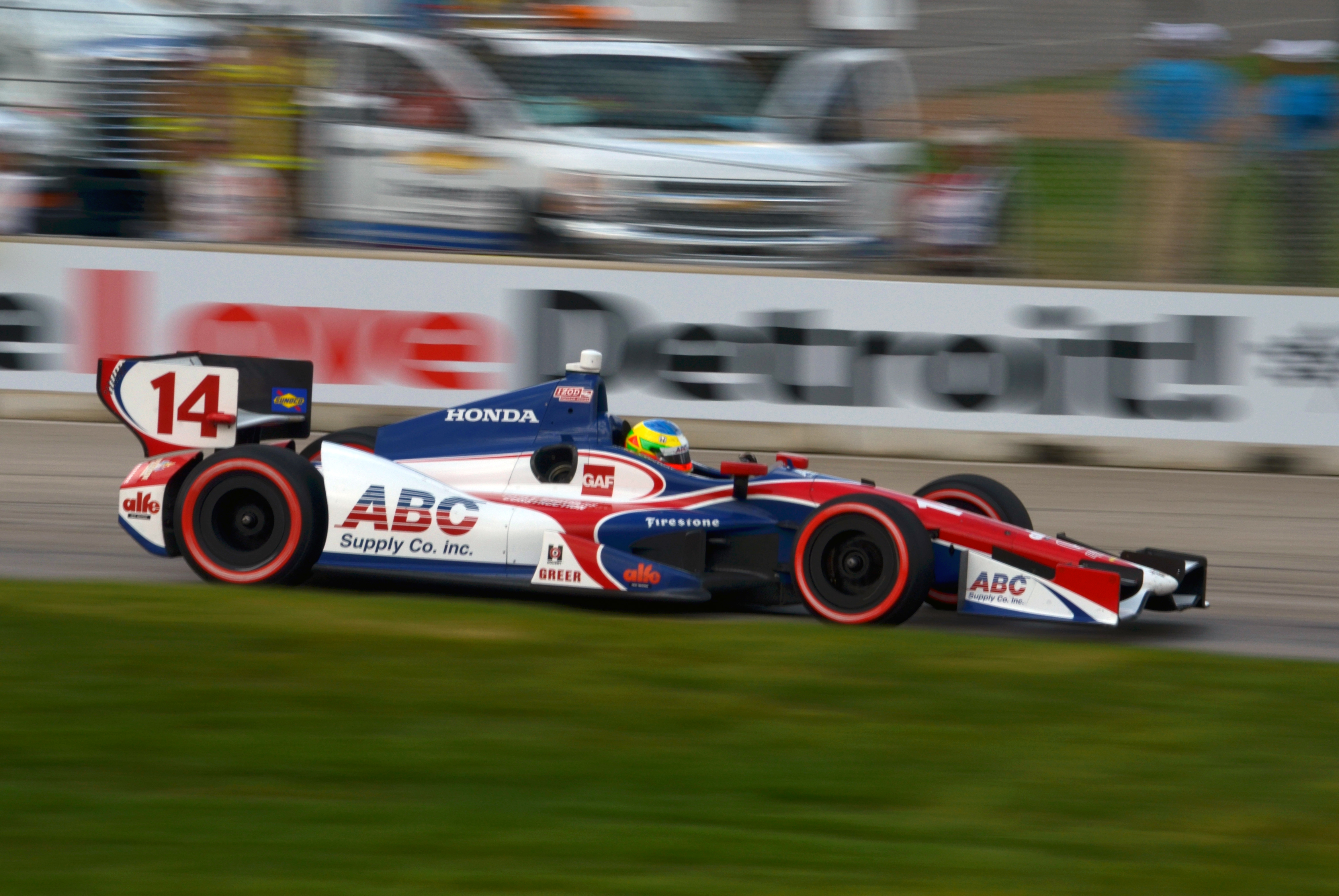 Mike Conway drives the Dallara DW12 #14 in the 2012 Indycar Detroit Belle Isle Grand Prix